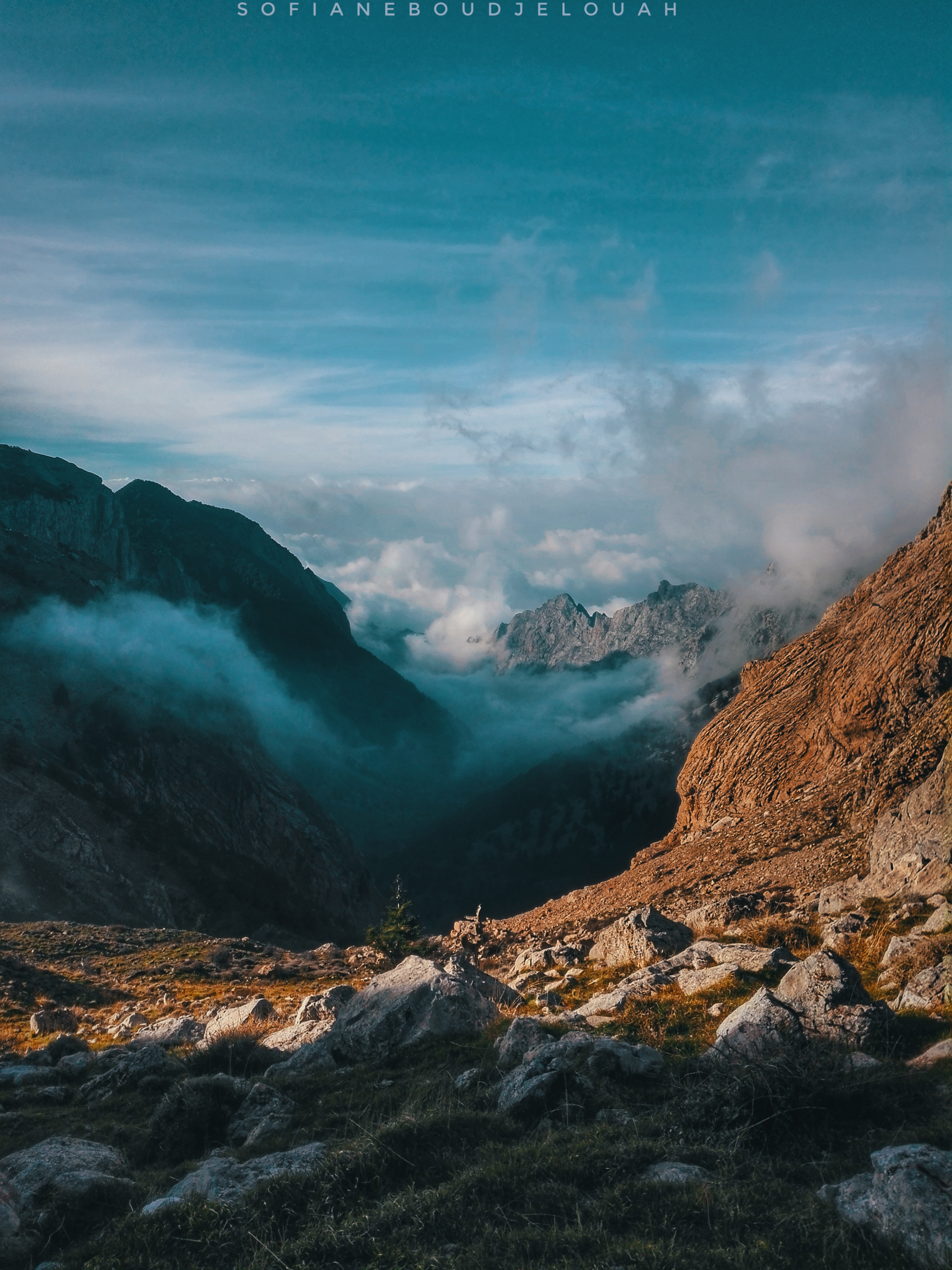 Mountains of Algeria anf kabyle This is an image with the theme "Play" from: Algeria